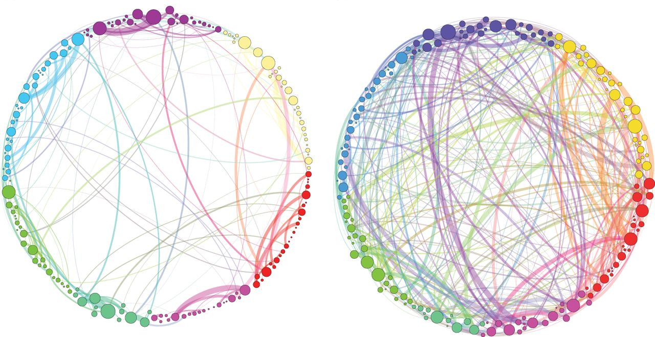 Simplified visualization of the persistence homological scaffolds. left: normal state. right: under the psilocybin effect.